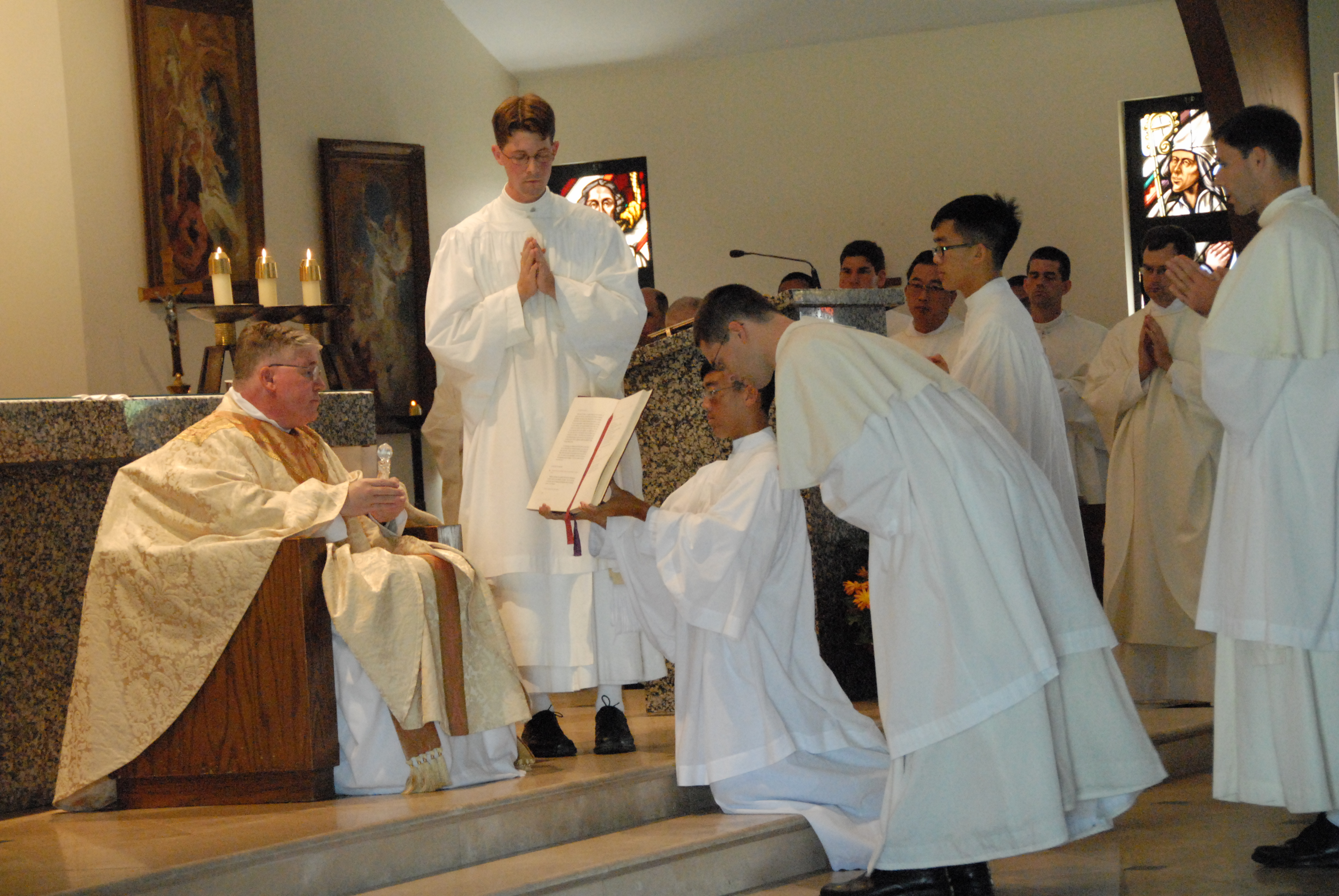 Liturgy at St. Michael's Abbey (Orange County, California)